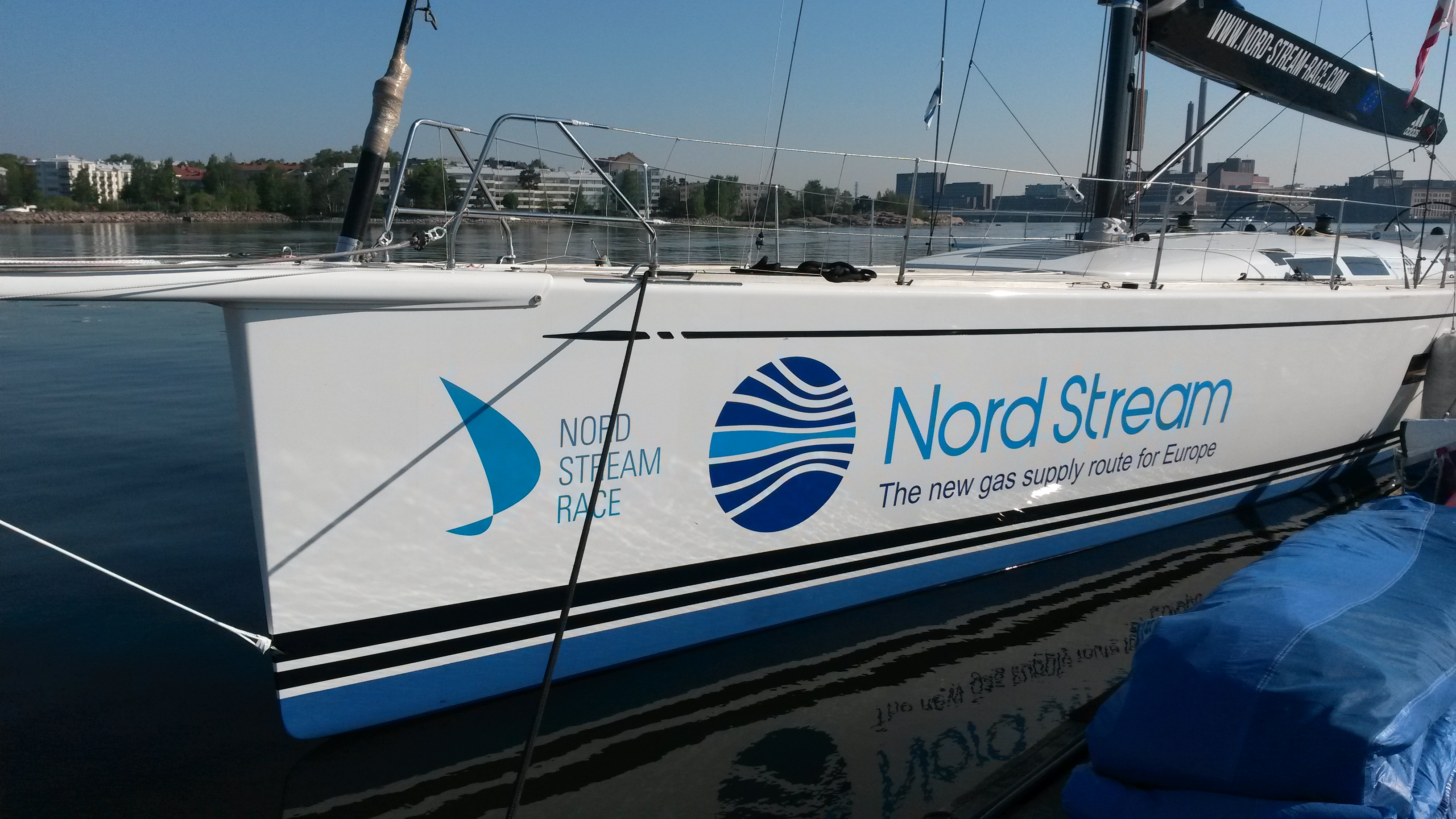 Swan 60 pictured in 2014 at HSK Yacht Club Helsinki.